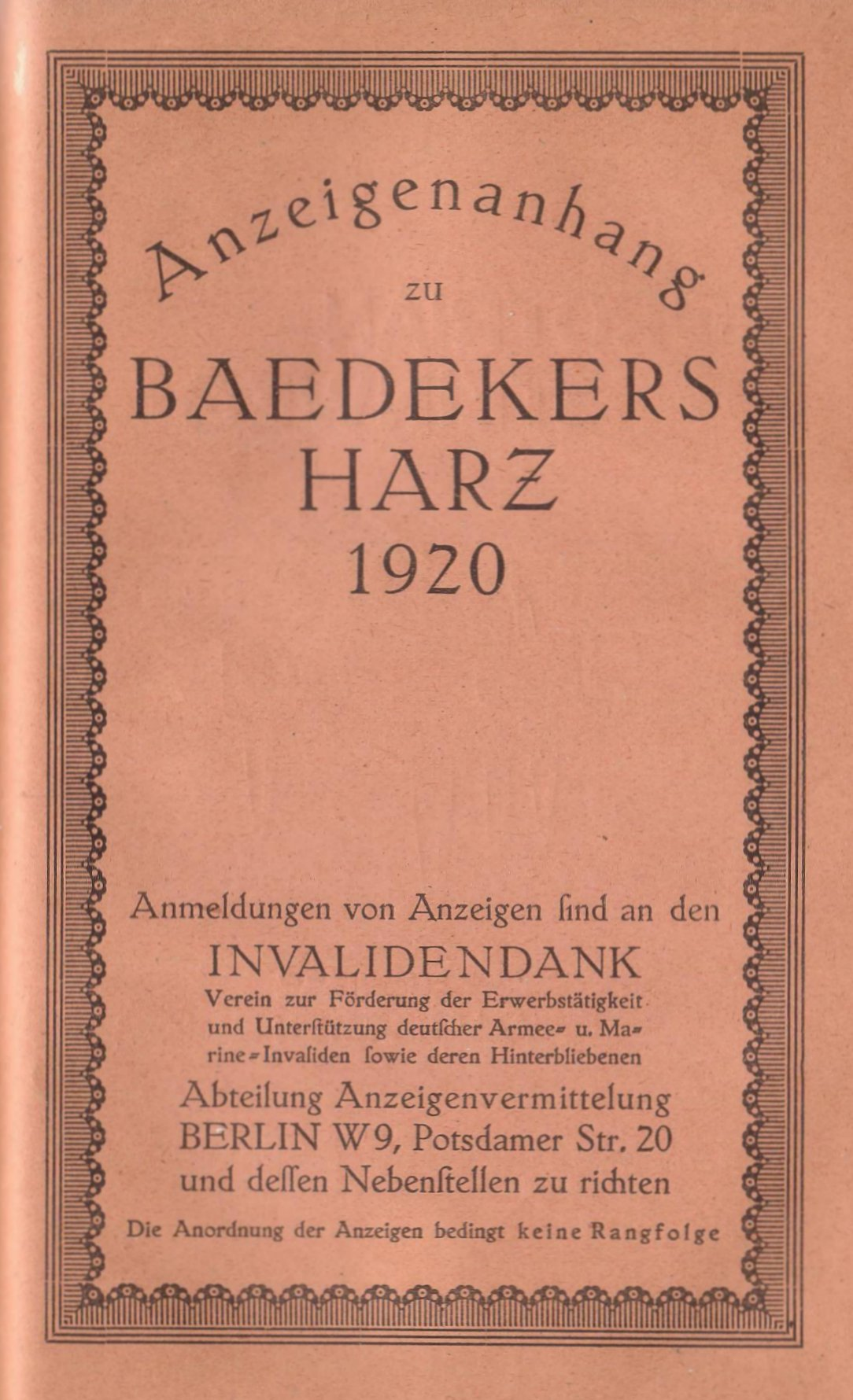 Titlepage of Invalidendank's advertisement supplement of Baedekers Harz 1920